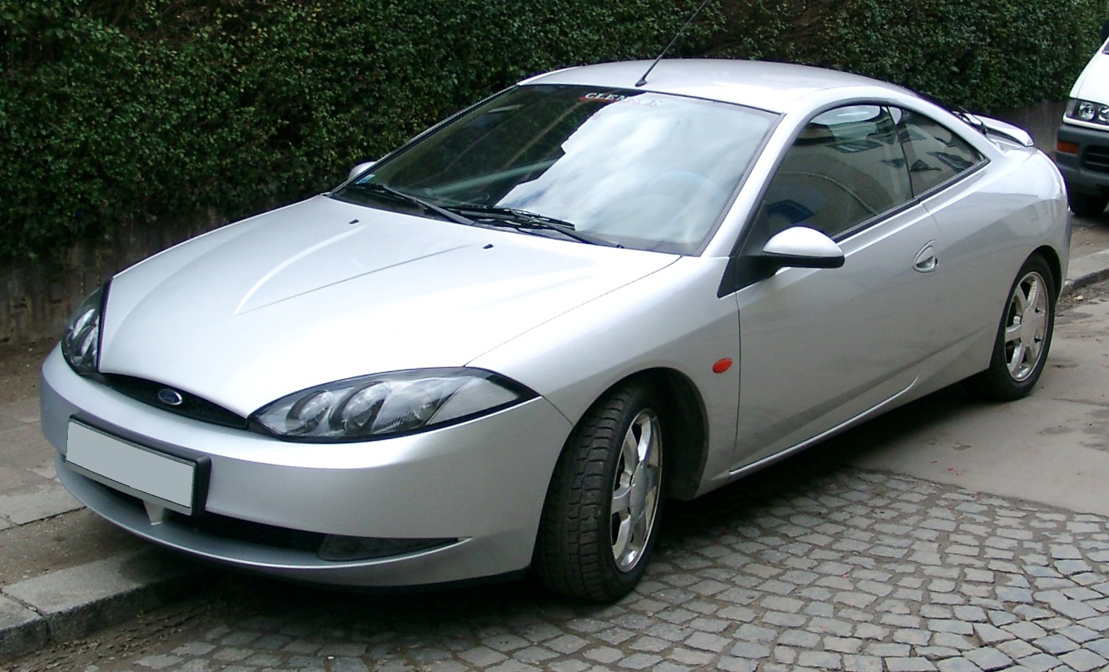 Ford Cougar